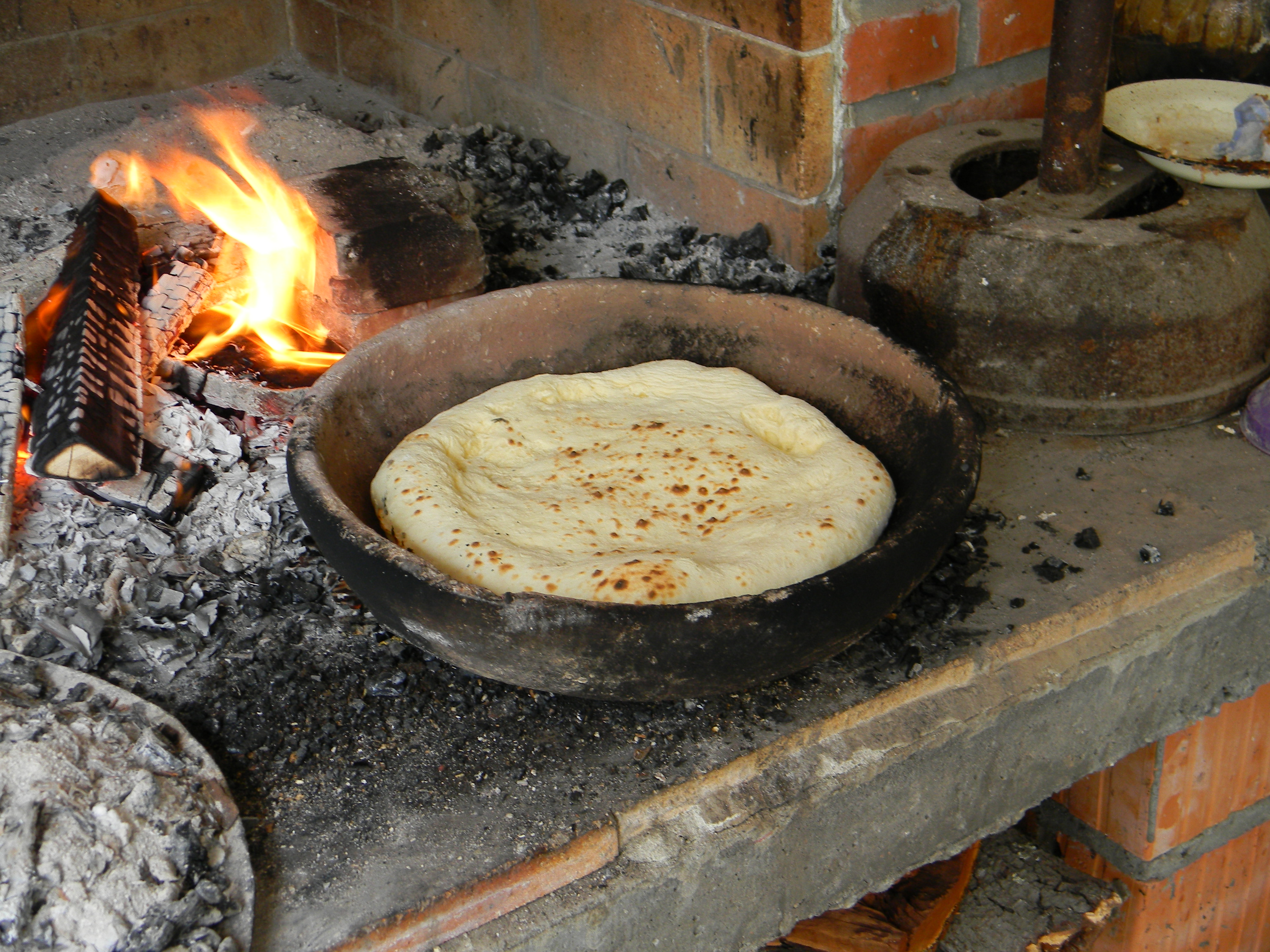 Traditional bread (pogača) making in Serbia (Stenjevac). Step 5 after 10 minute heat